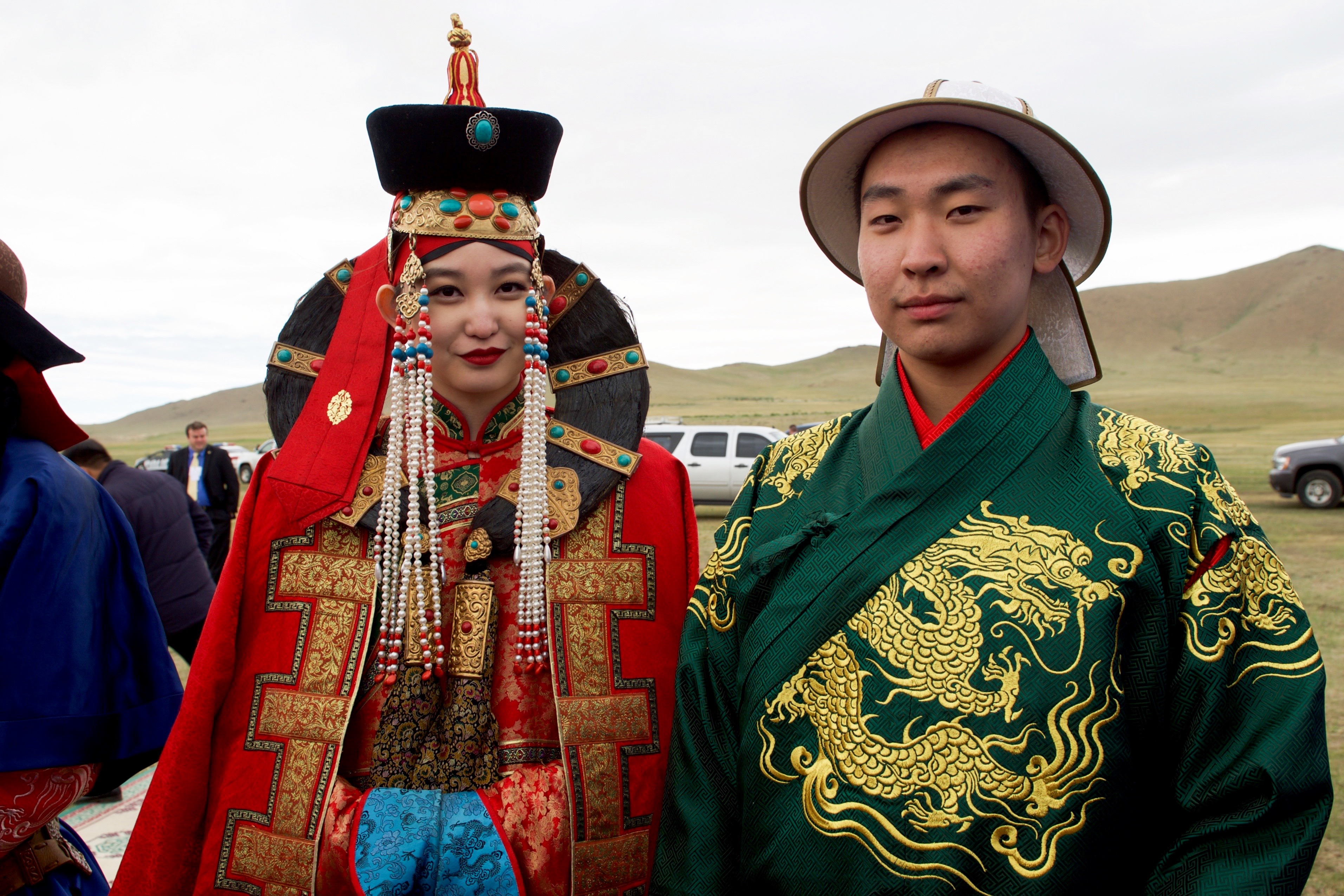 A man and woman in traditional Mongolian dress look on as U.S. Secretary of State John Kerry attends a “mini-nadaam” – a display of music, dance, archery, wrestling, and horse-riding – in a field outside Ulaanbaatar, Mongolia, following bilateral meetings on June 5, 2016, with Mongolian President Tsakhia Elbegdorj and Foreign Minister Lundeg Purevsuren. [State Department photo/ Public Domain]